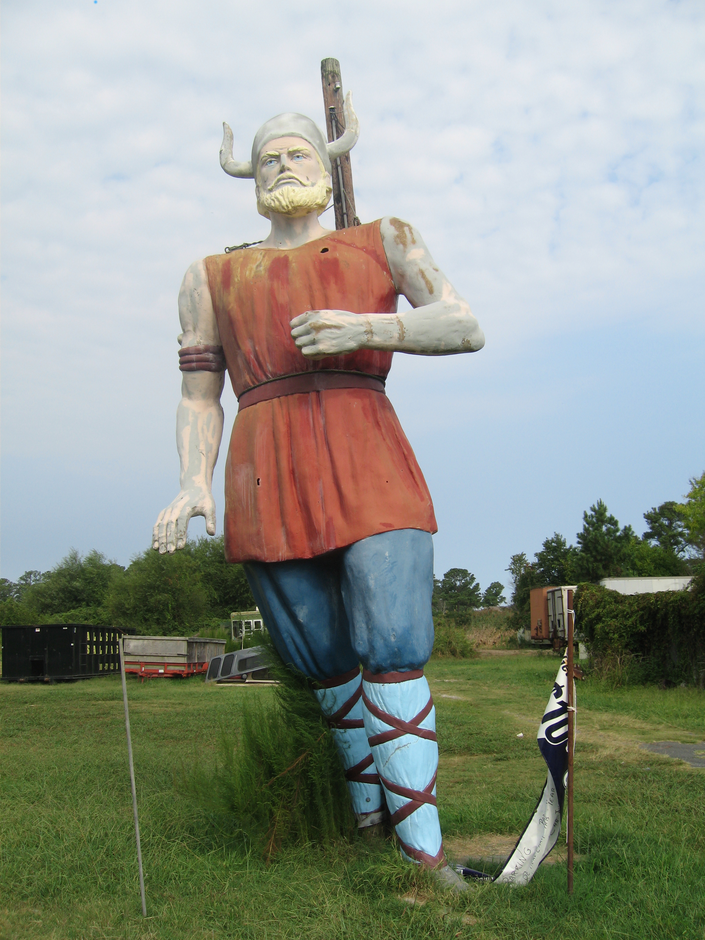 The Chincoteague Viking located on the north side of Ridge Road across from the end of Pony Swim Lane on Chincoteague Island, Virginia. The approximate address is 3376 Ridge Road. This hollow fiberglass statue is approximately 20 feet tall and is a Muffler Man.